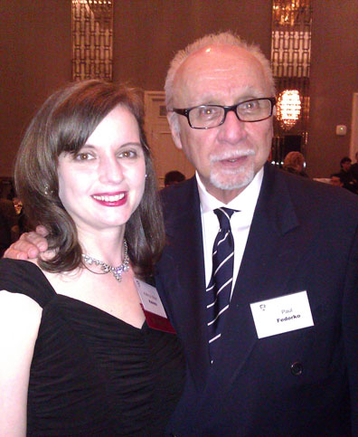 Nominee Kathryn Miller Haines and agent Paul Fedorko at the Grand Hyatt New York for the 2012 Mystery Writers of America Edgar Awards.